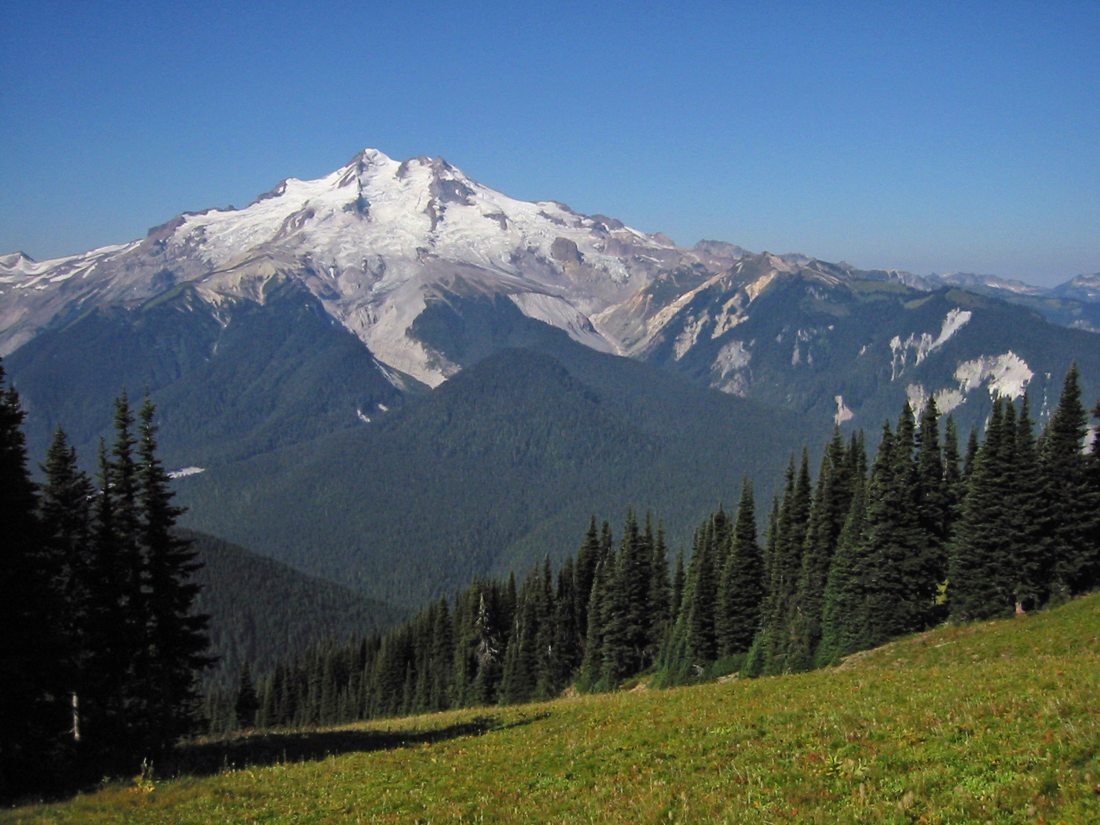 Glacier Peak 10541 feet, Cool, Chocolate (descending from summit), North Guardian and Dusty Glaciers (l to r), Gamma Ridge (right)